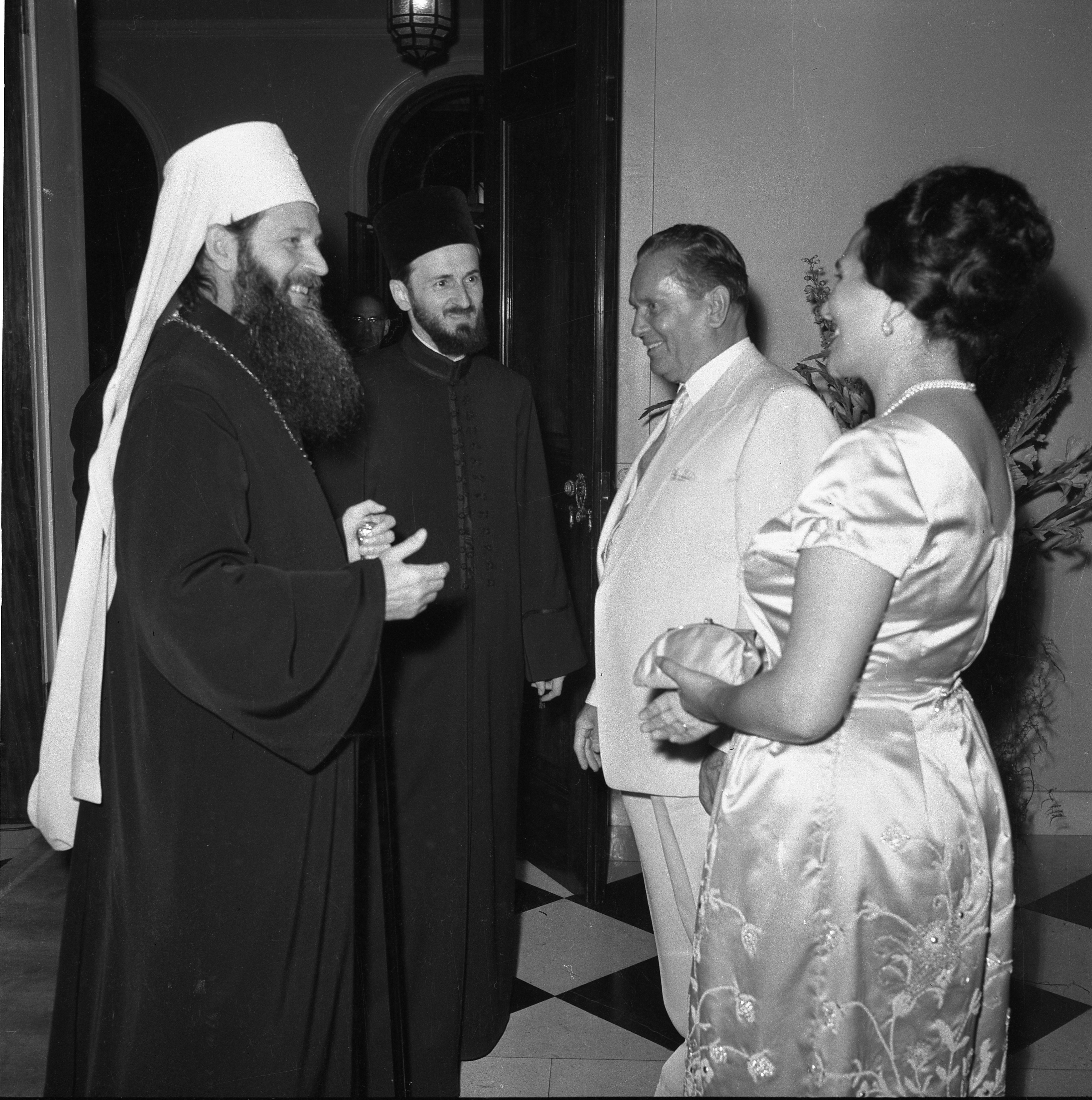 U pratnji patrijarha Germana sa Titom i Jovankom Broz